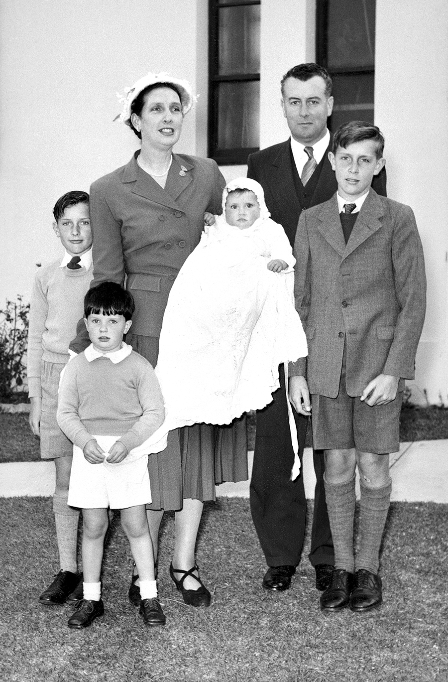 Margaret and Gough Whitlam with their four children, shortly after the christening of Catherine in 1954.